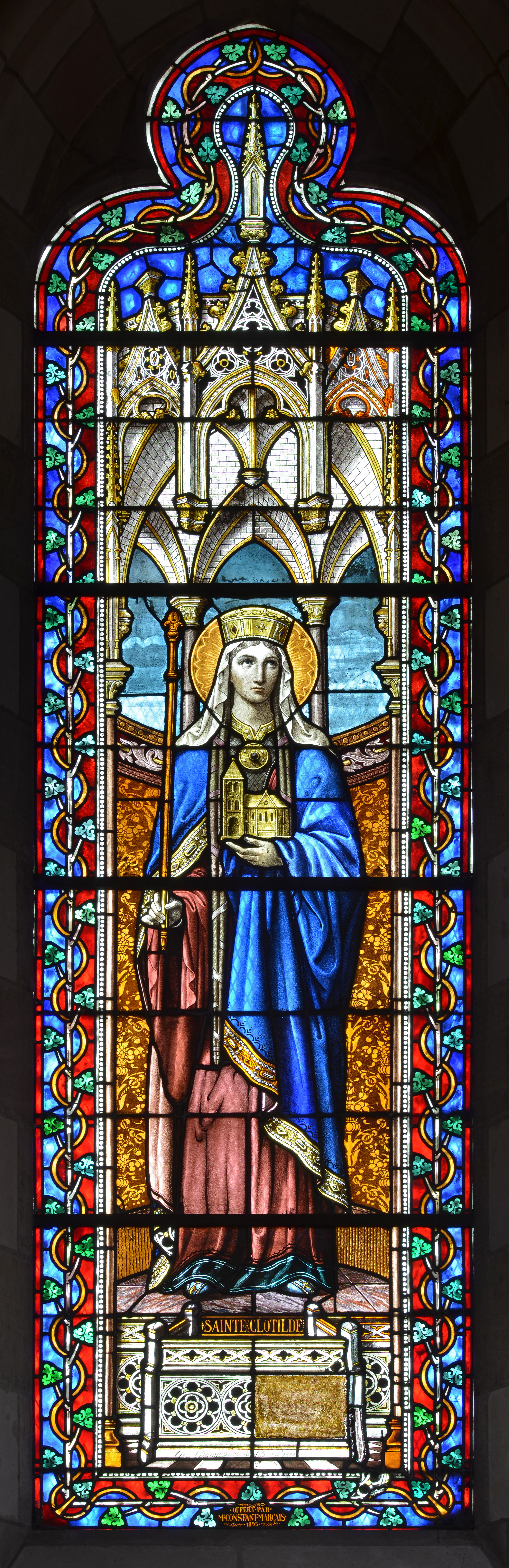 Stained glass window by Charles Champigneulle's workshop (1895) depicting Clotilde - Notre-Dame church, Sablé-sur-Sarthe, France.